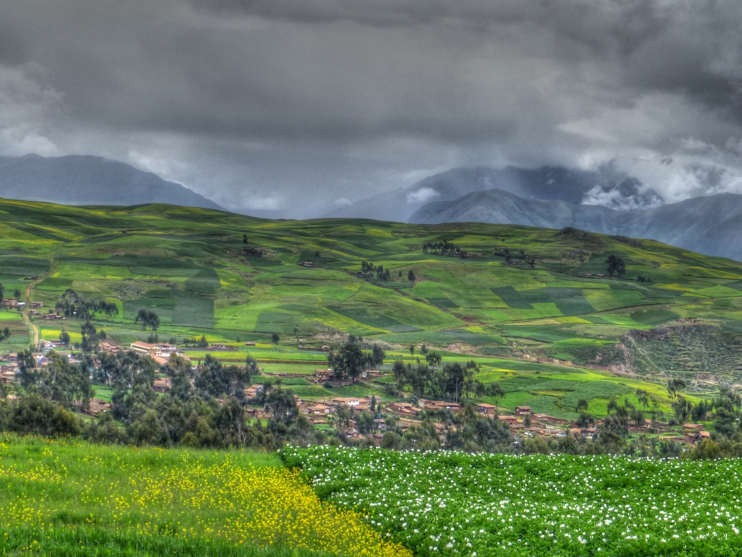 Sacred Valley of the Incas